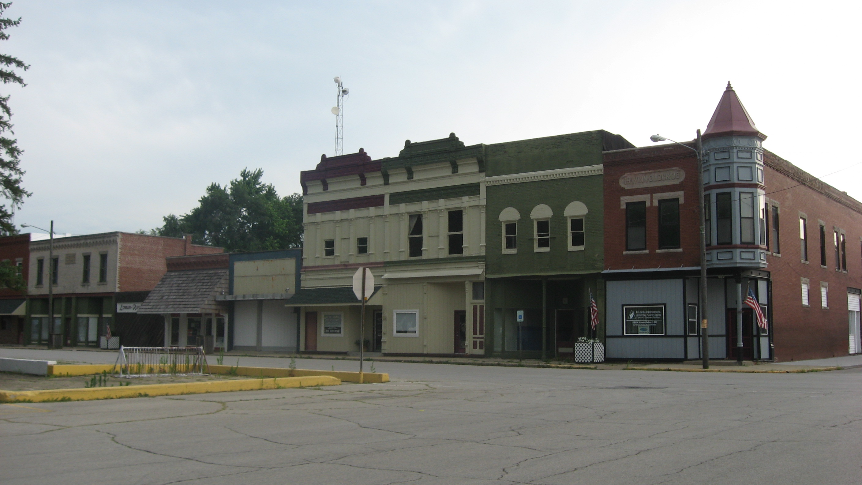 Buildings on the western side of Broadway immediately south of the Yates Street intersection in Newman, Illinois, United States.